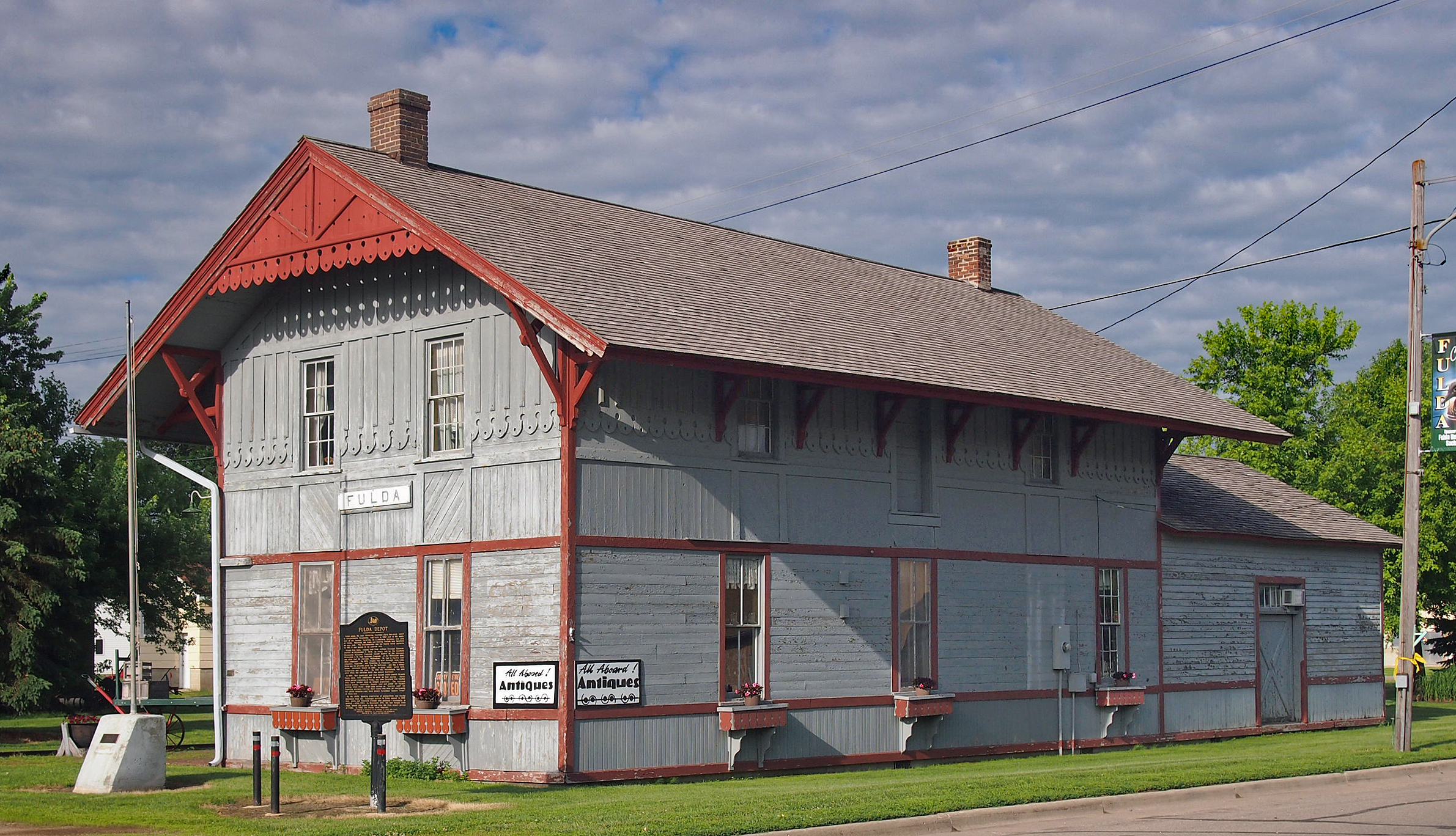 Chicago, Milwaukee, St. Paul and Pacific Depot (now All Aboard! Antiques), Fulda, Minnesota, USA. Viewed from the northeast.